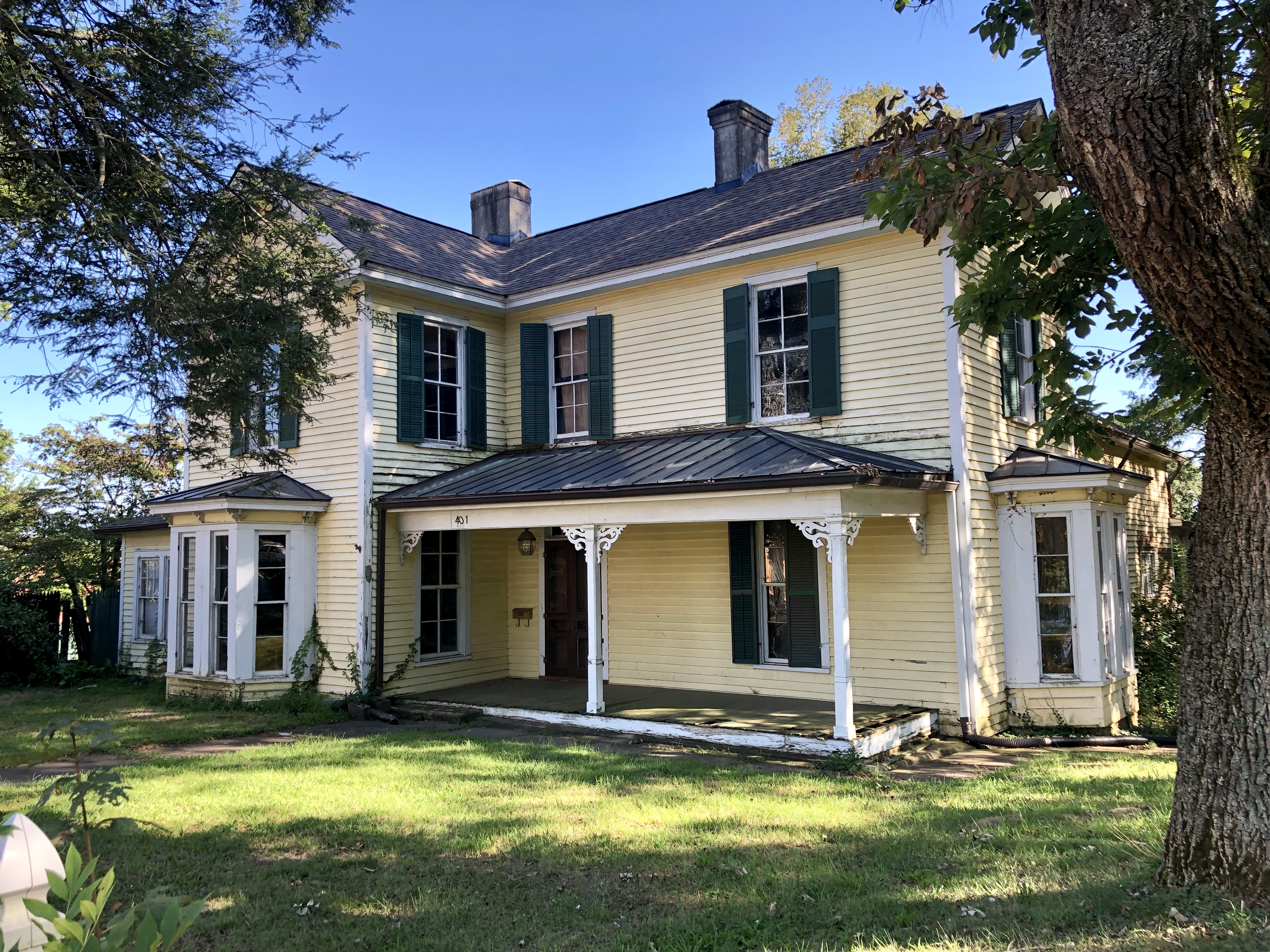 This is a house on North Green Street in Morganton, North Carolina. The Late Victorian-style home is a contributing structure in the North Green Street Historic District, listed on the National Register of Historic Places in 1987.